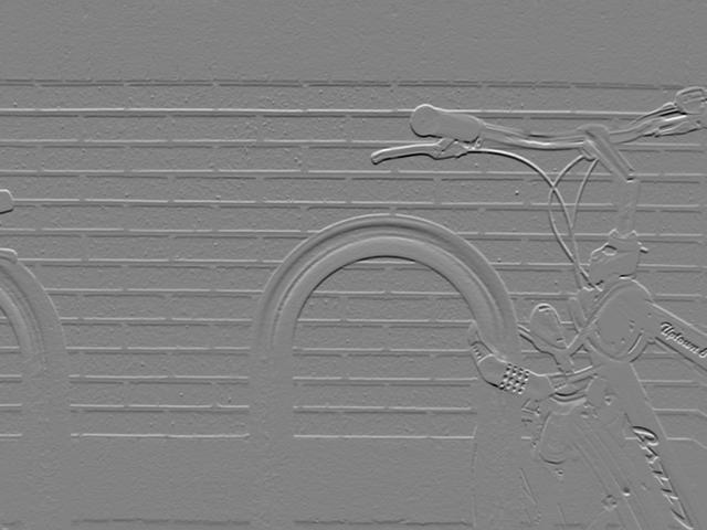 Grayscale image of a brick wall & bike rack